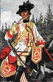 Uniform-Collectible Picture